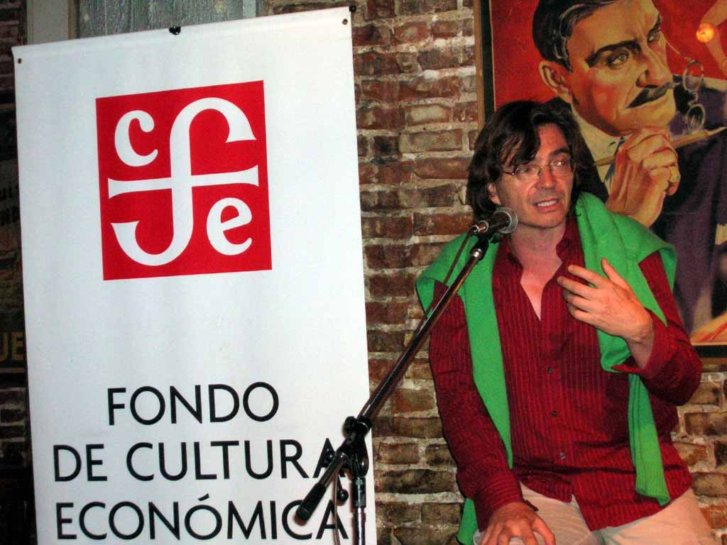 Picture of Luc Delannoy